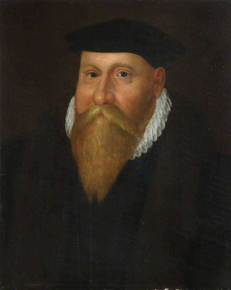 Portrait of Thomas 'Customer' Smythe (1522-1591).